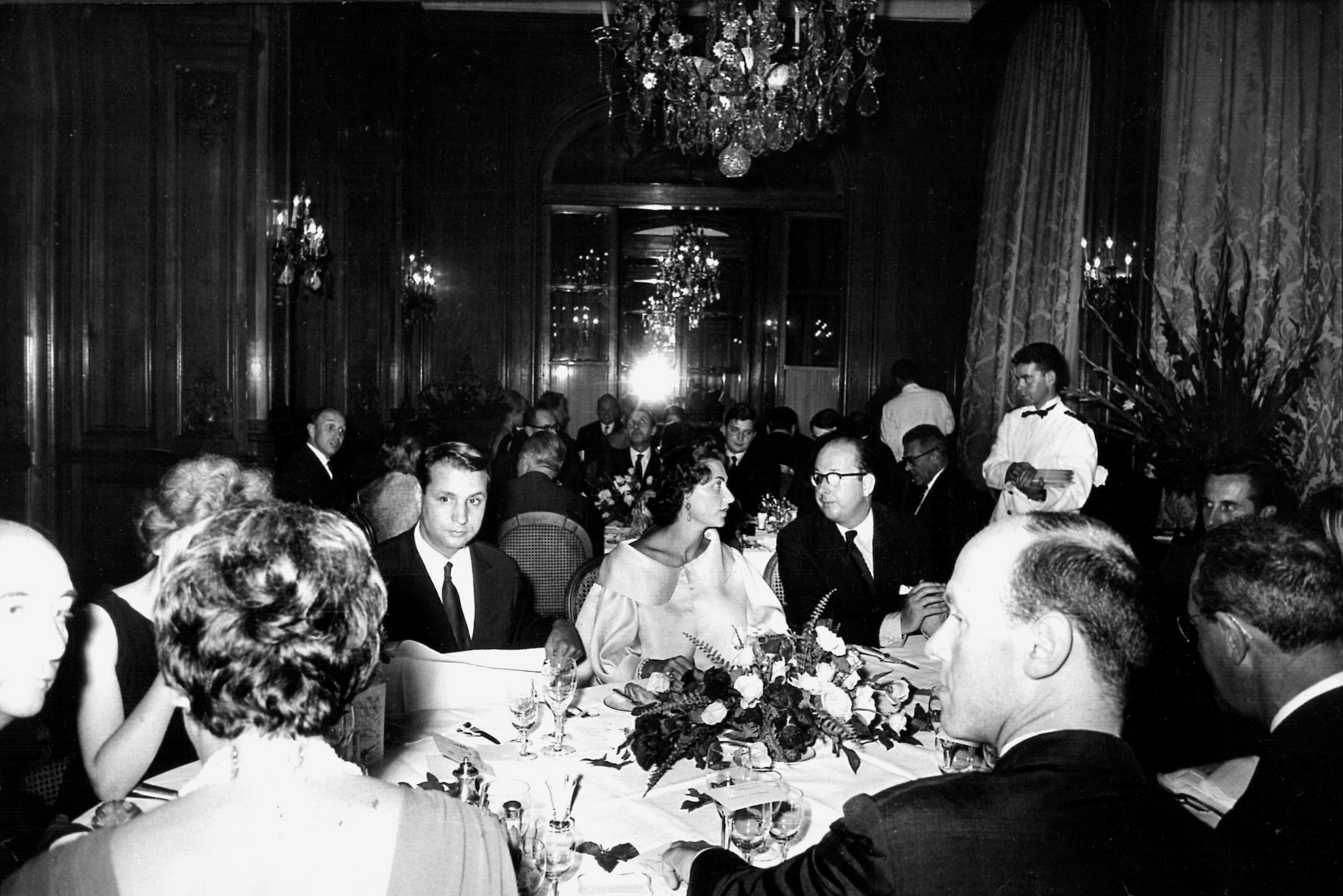 Fashion journalist Marie-Jacques Perrier at a dinner in honor of the designer Charles Jourdan. Plaza Athénée hotel in Paris.